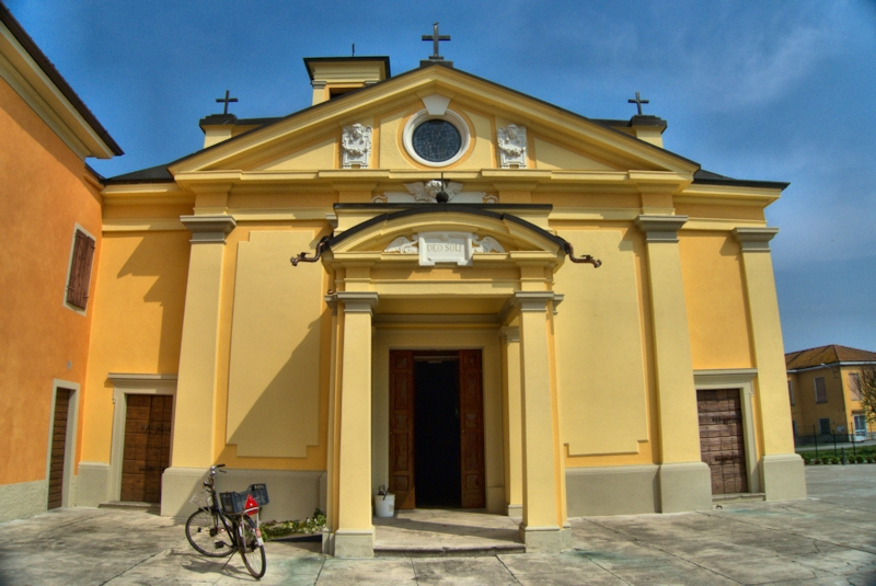 Church of St. Ambrose in Torlino Vimercati (province of Cremona), Italy